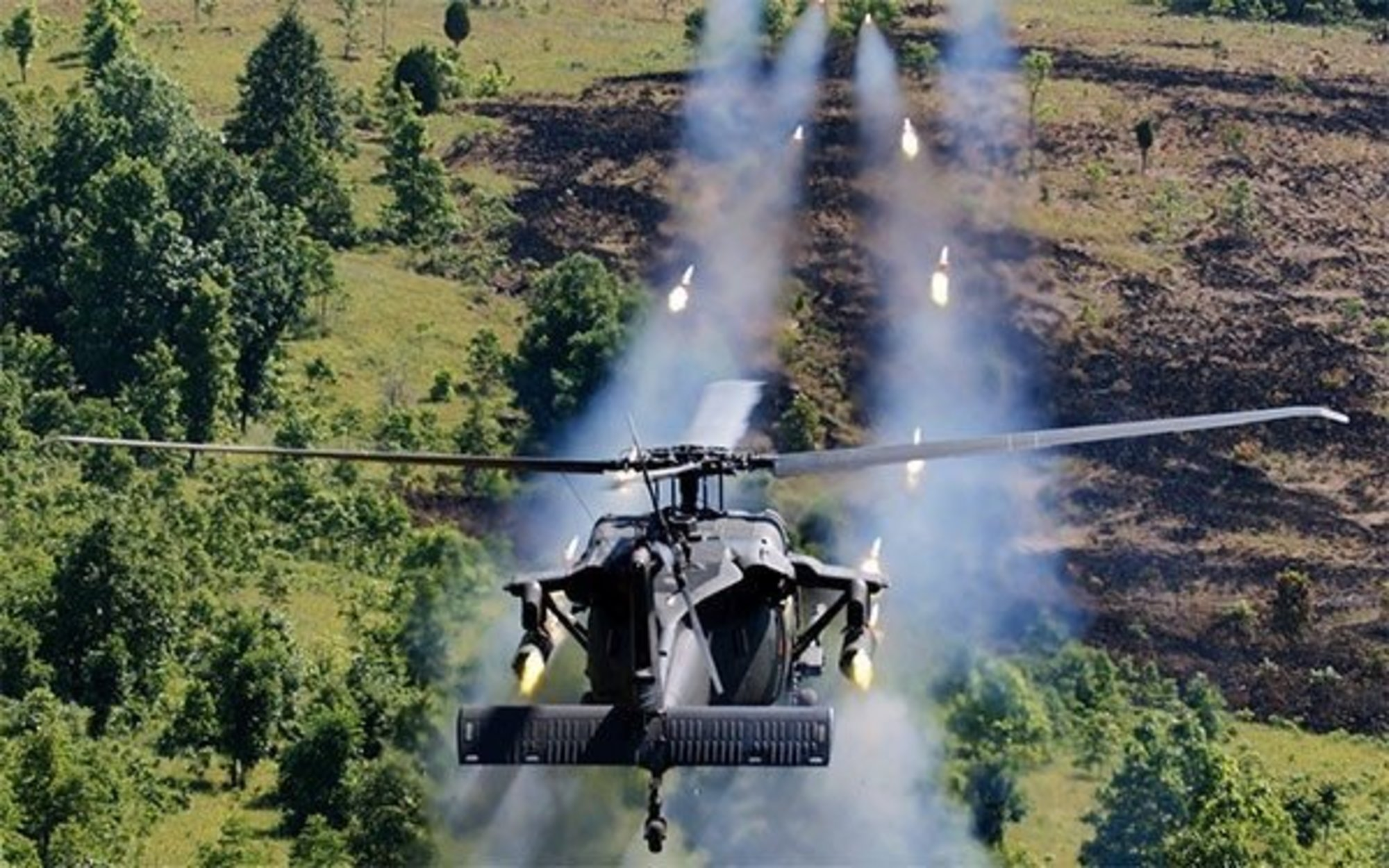 U.S. Army's w:160th Special Operations Aviation Regiment (Airborne)'s MH-60M Direct Action Penetrator (DAP) firing 2.75 in (7.0 cm) rockets on a U.S. Army test ground